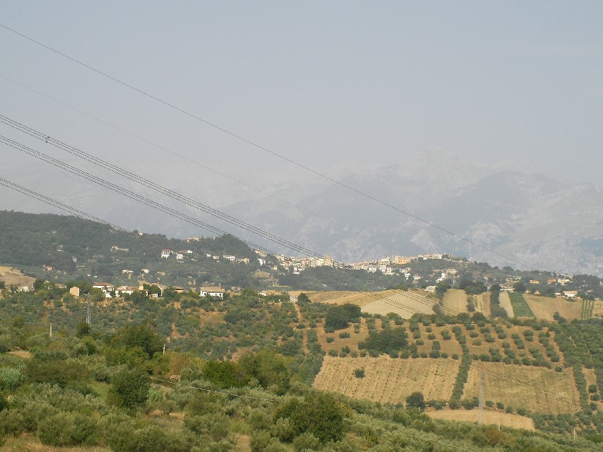 View of Archi from Atessa